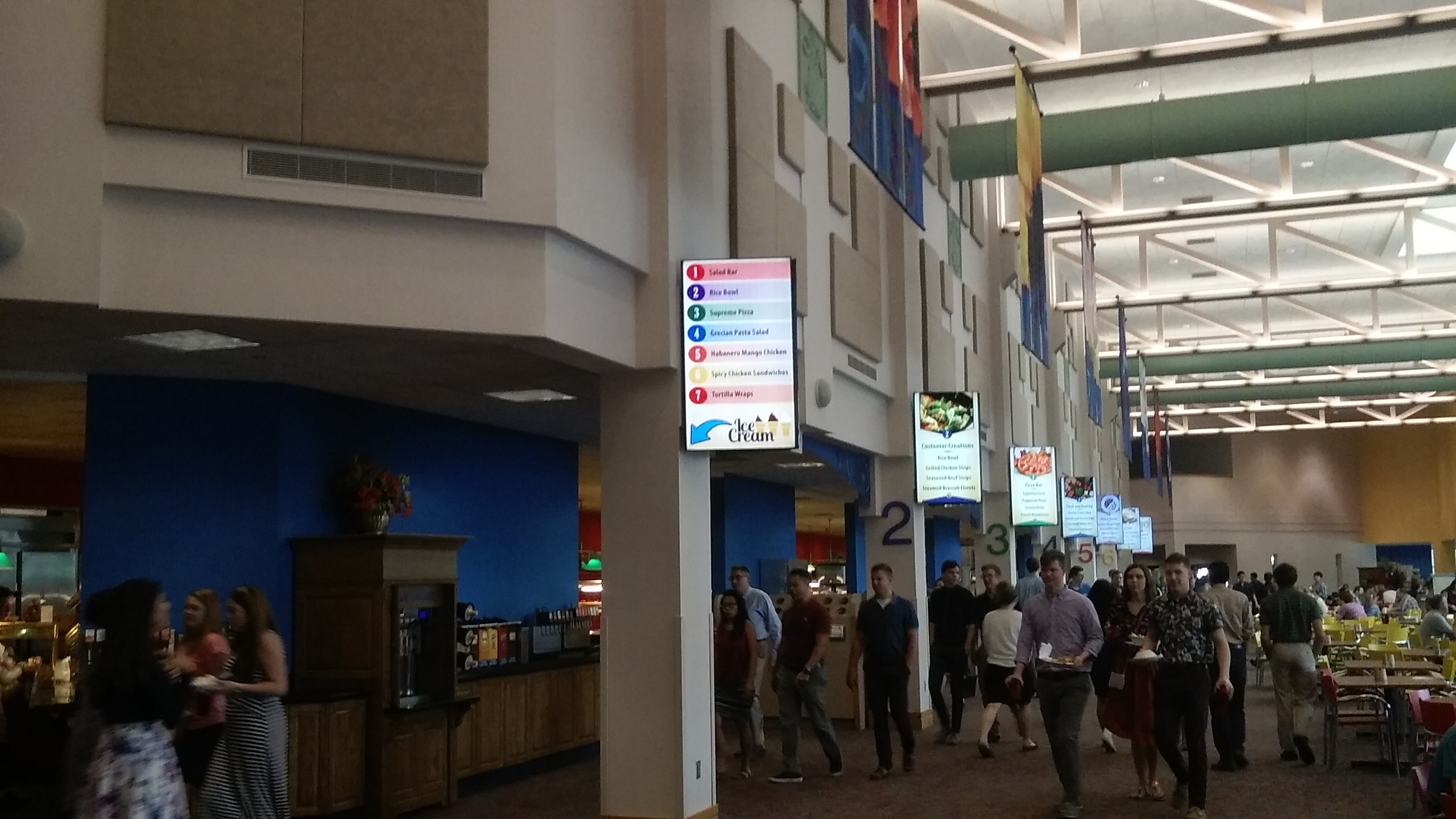 Interior of the Four Winds main dining facility at Pensacola Christian College. This image was taken during College Days, a public event held on the campus.